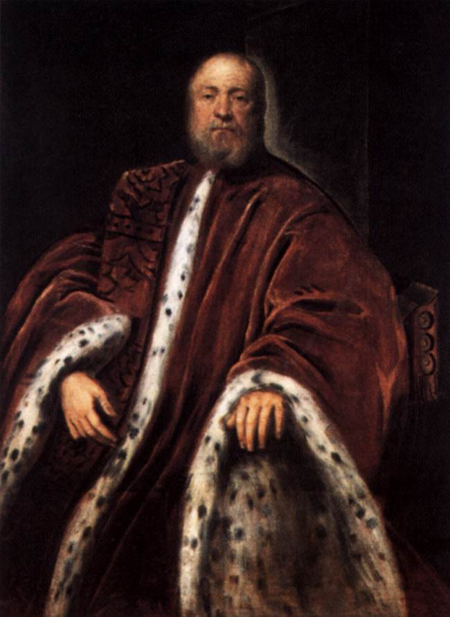 Portrait of a Procurator of St Mark's 1580-83 Oil on canvas, 139 x 101 cm National Gallery of Art, Washington